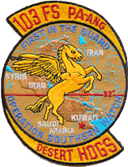 103d Fighter Squadron Operation Southern Watch Emblem